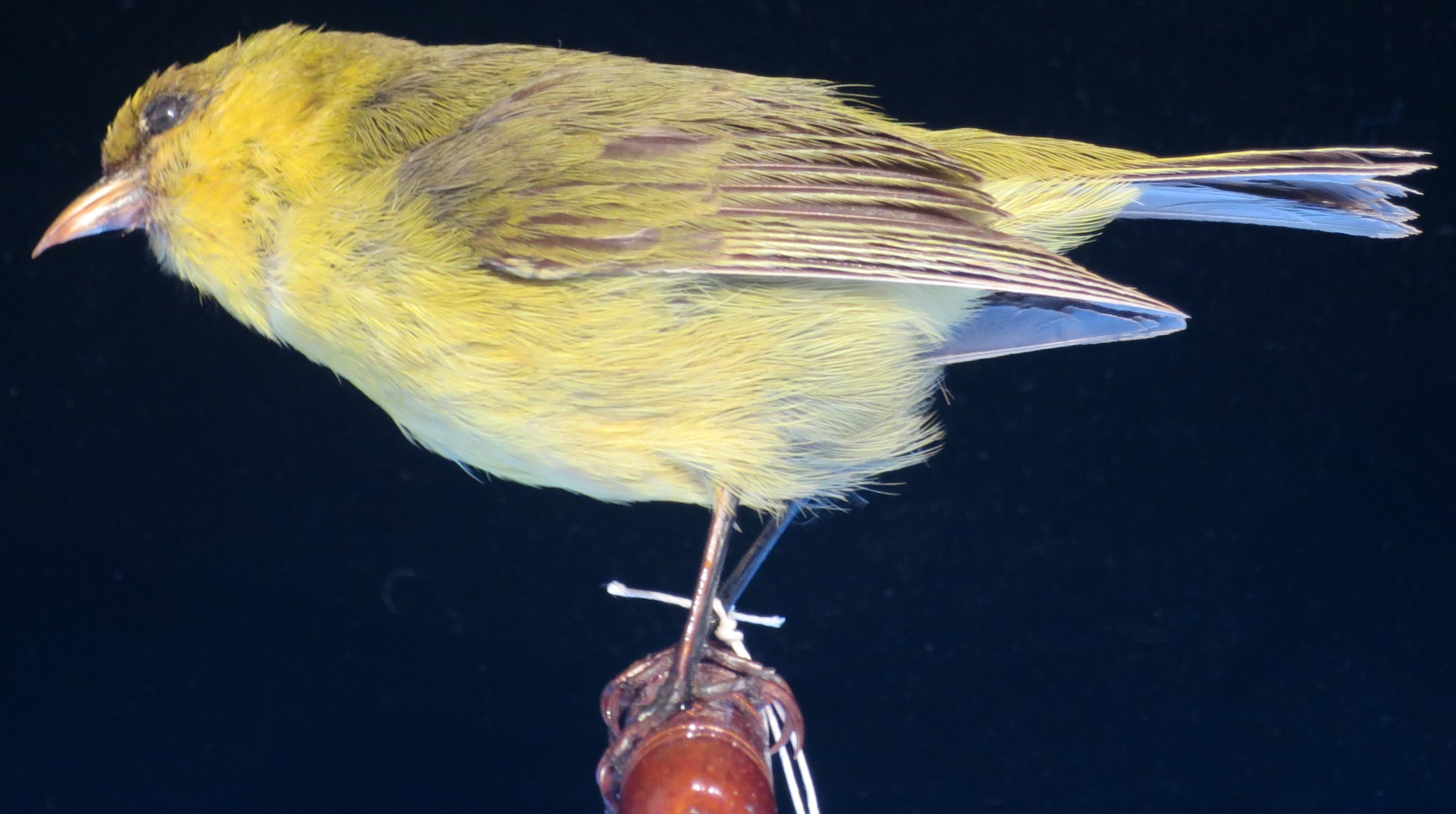 Loxops caeruleirostris (Wilson), Bishop Museum, Honolulu